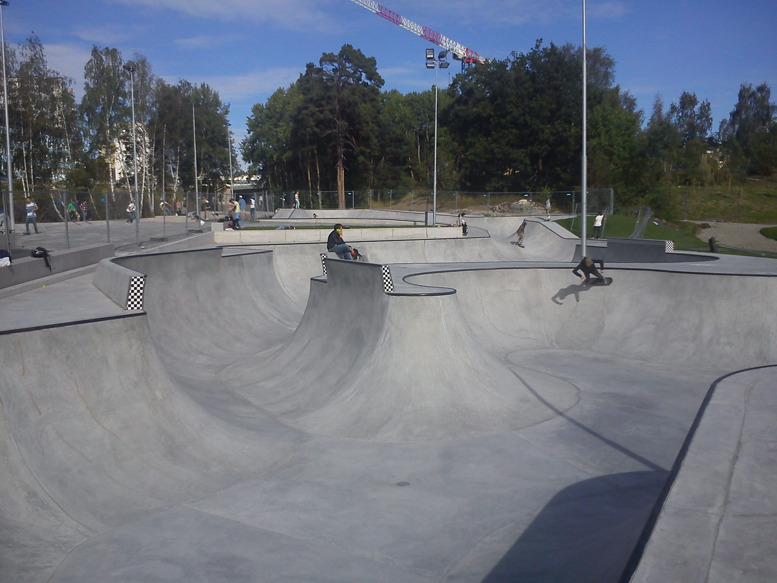 Highvalley Skatepark, Högdalen Stockholm, Sweden